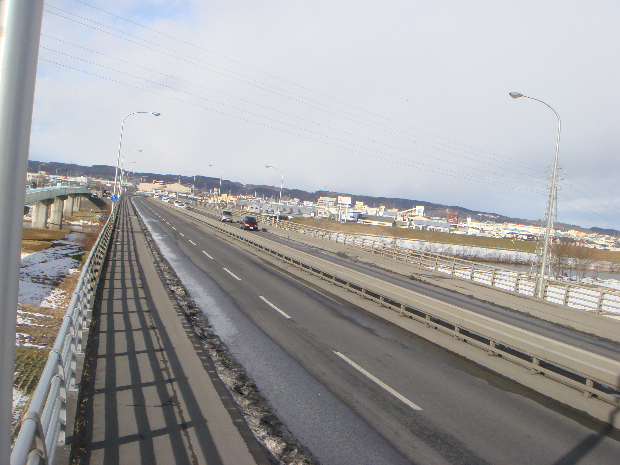 Nejo Ohashi is bridge in Hachinohe,Japan.